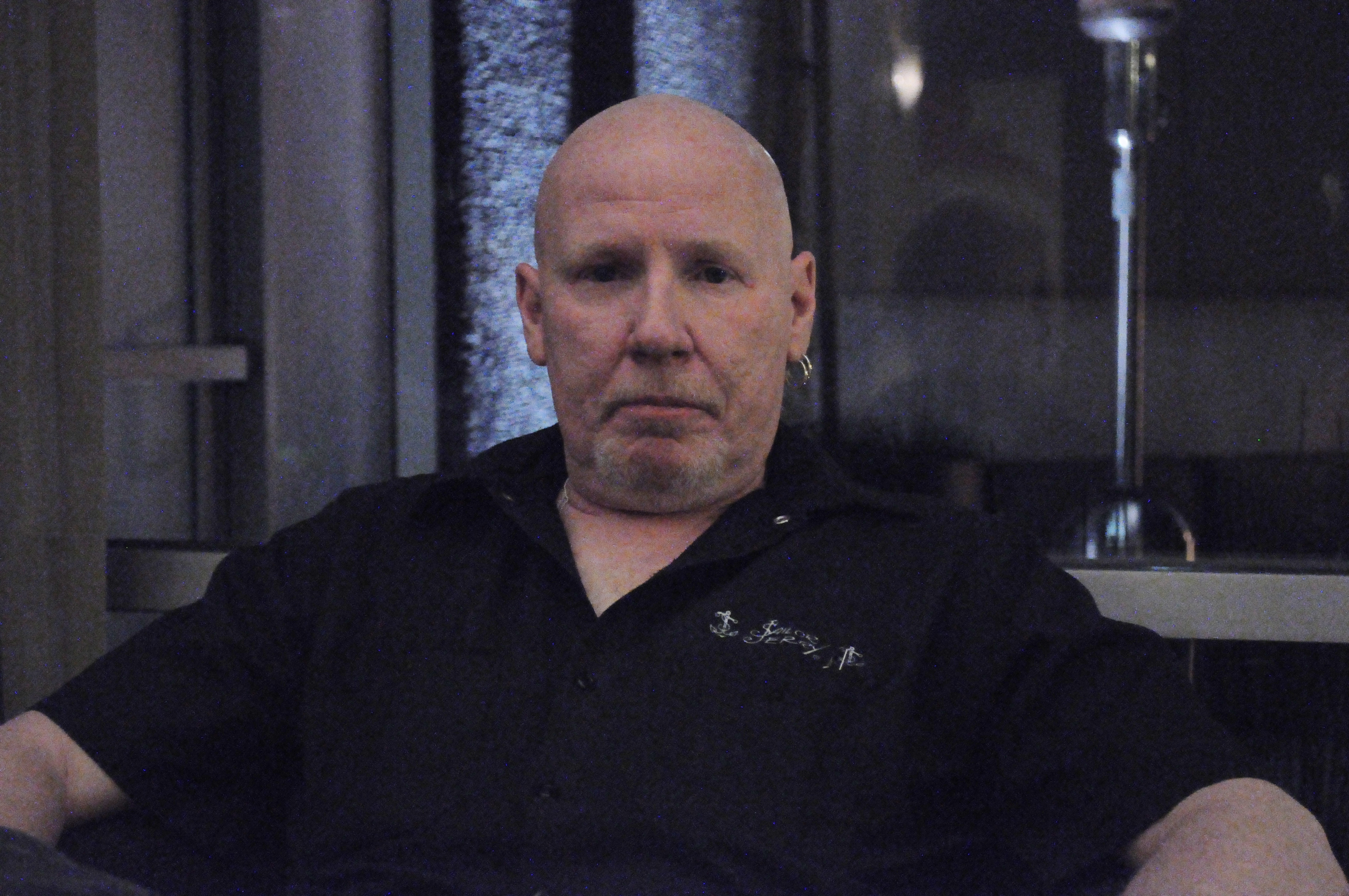 Musician Cheetah Chrome.